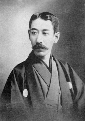 Yoshinaga Higashibojo